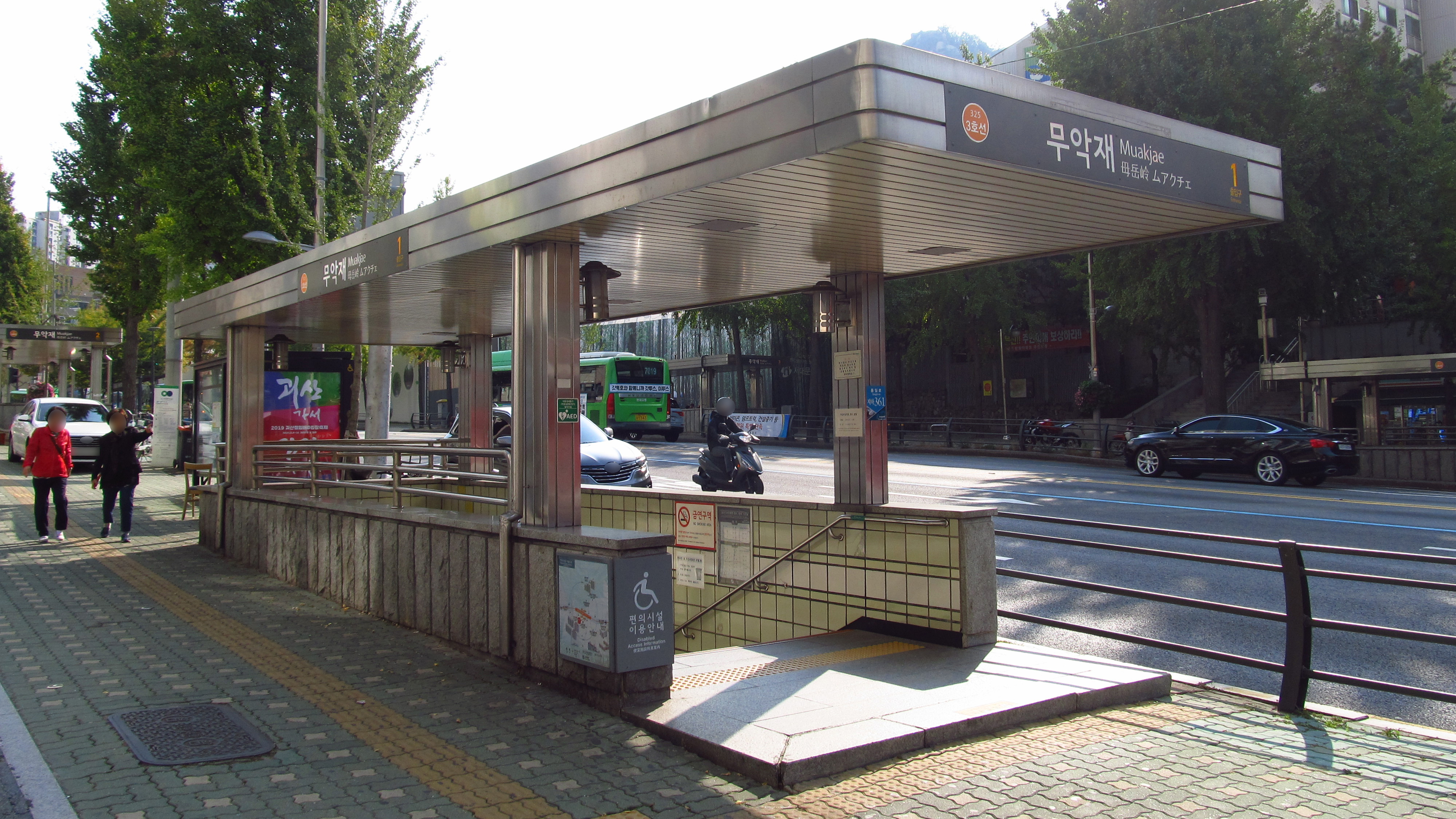 The no.1 entrance to Muakjae Station on the Seoul Metro Line 3 in Seodaemun-gu, Seoul, Republic of Korea(South Korea)